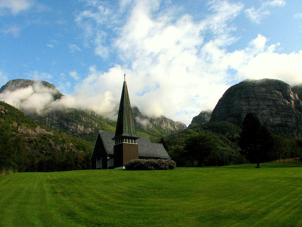 Lyse Chapel from 1961. Architects Gustav Helland and Endre Årreberg.